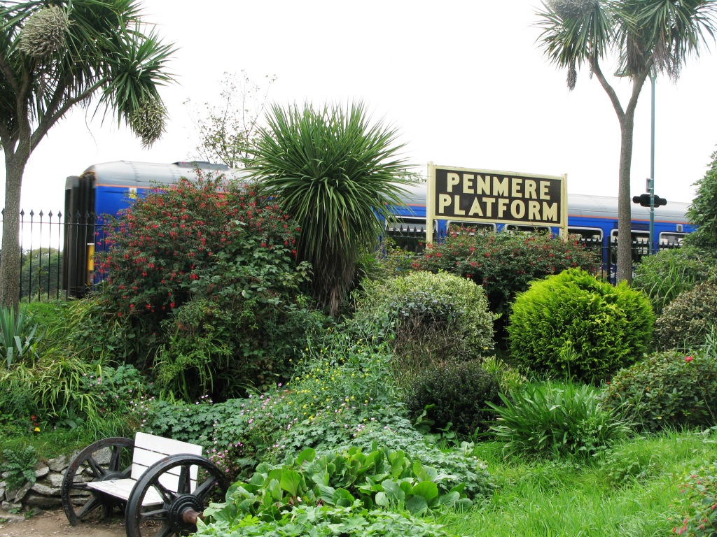 The station garden at Penmere Platform in Falmouth, Cornwall, United Kingdom. 153377 is behind the bushes on its way from Truro to Falmouth Docks.